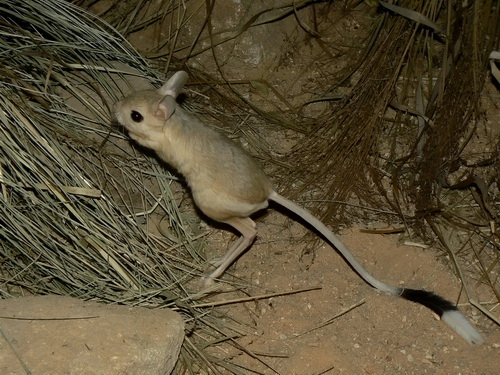 Greater Egyptian jerboa (Jaculus orientalis) at the Plzen Zoological and Botanical Garden